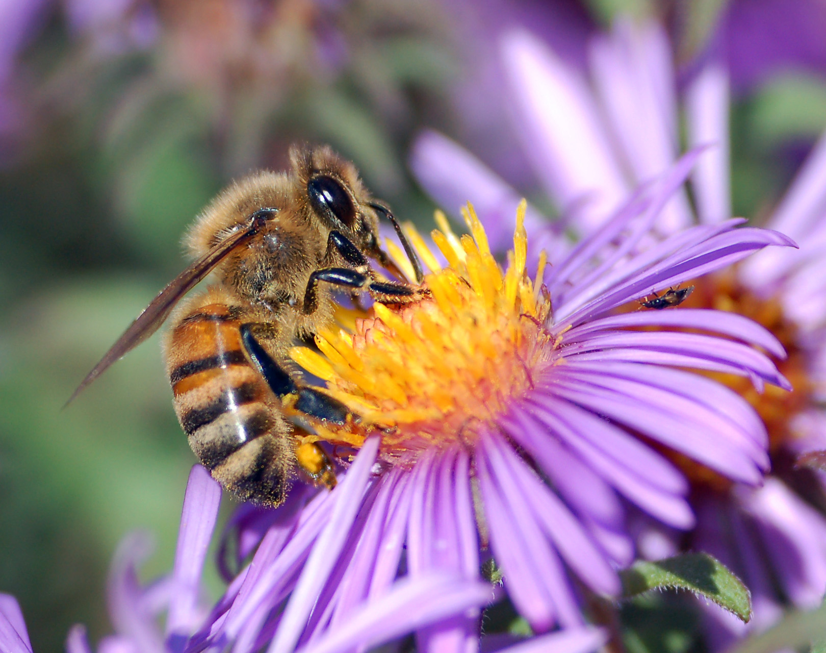 A European honey bee (Apis mellifera) extracts nectar from an Aster flower using its proboscis. Tiny hairs covering the bee's body maintain a slight electrostatic charge, causing pollen from the flower's anthers to stick to the bee, allowing for pollination when the bee moves on to another flower.